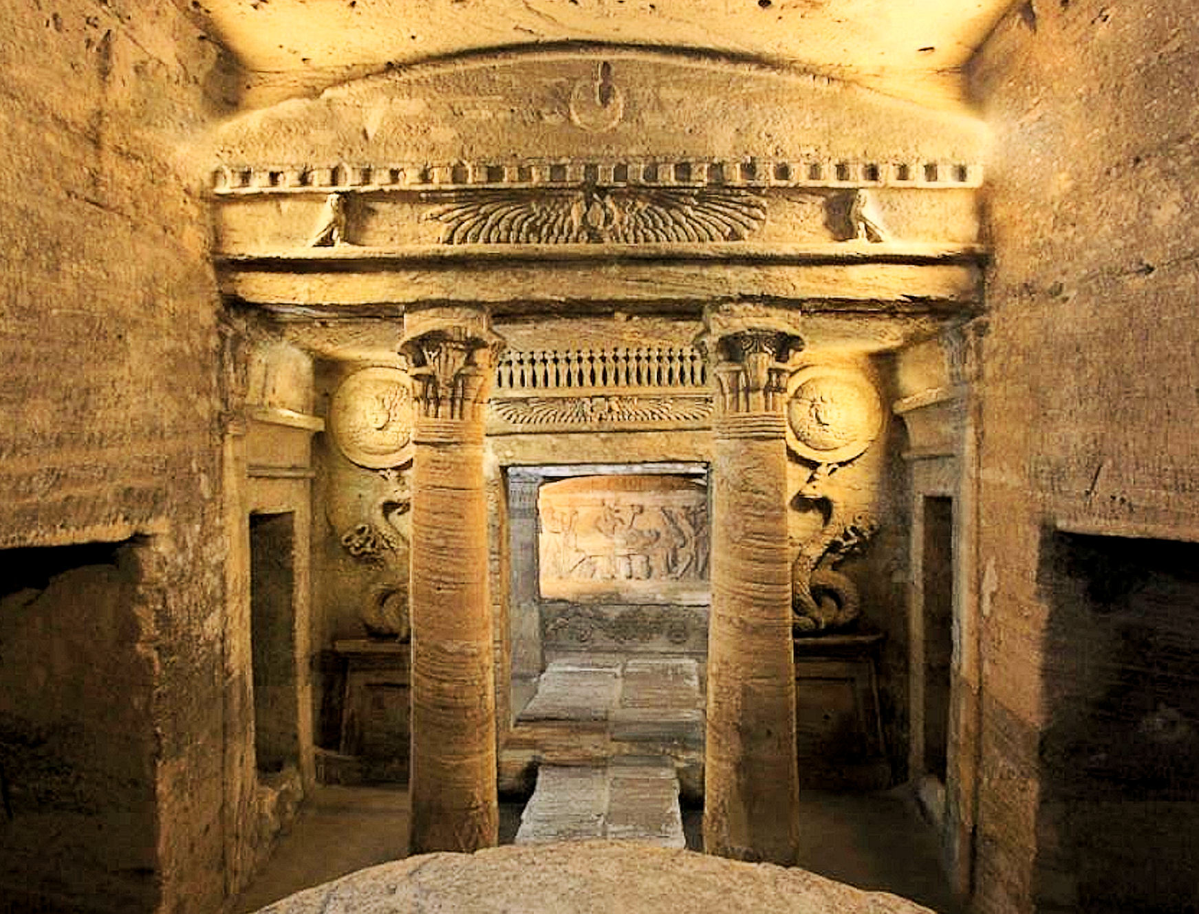 The catacombs of Kom El Shoqafa (meaning "Mound of Shards")